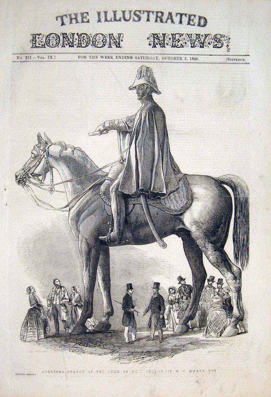 Print of the Wellington Statue located in Aldershot in Hampshire since 1885